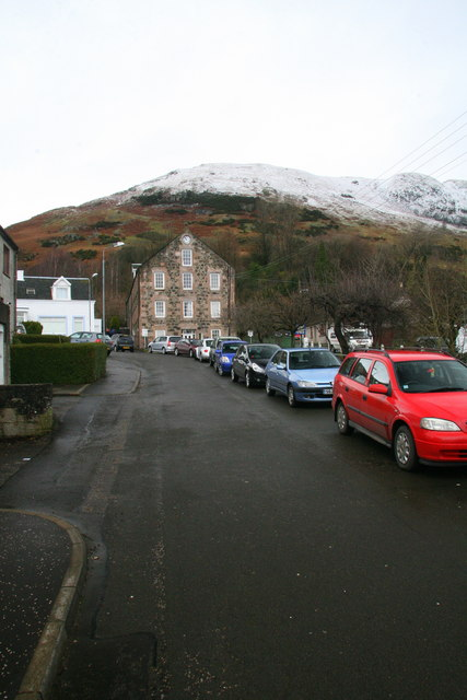 Braehead Avenue , Tillicoultry Clock Mill visible in the centre, started out as a mill and after various uses now serves residential purposes.The snowy top of Kirk Craigs showing behind the mill.